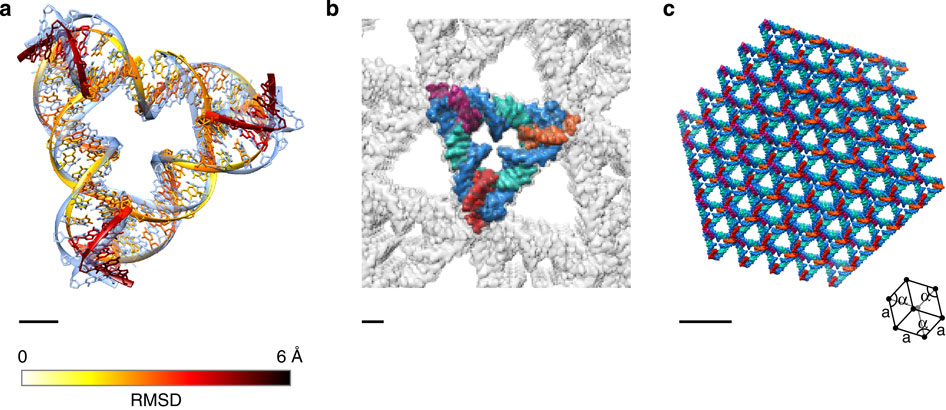 Diagrams of a DNA tensegrity triangle array used in DNA nanotechnology. Original caption: "Figure 4: 3D crystal lattice of a tensegrity motif. (a) Zoomed-in view of the central crystal cell aligned with the crystallographic structure PDB ID: 3GBI (light blue). Each nucleotide in the crystal structure predicted by the model is coloured according to its RMSD on a per-nucleotide basis with respect to the corresponding nucleotide in the crystallographic structure. (b) The zoomed-in central unit cell coloured according to DNA strands with the surrounding unit cells shown in semi-transparent rendering. (c) The overall crystal structure of PDB ID 3GBI14 predicted using the finite element model applied to a 5 × 5 × 5 cell. The lower right inset shows the size and orientation of a unit cell, where crystal axes and angles are denoted by a and α, respectively. Three orthogonal views of each panel are depicted in Supplementary Fig. 15. Scale bars are 1 nm (a,b) and 10 nm (c)."